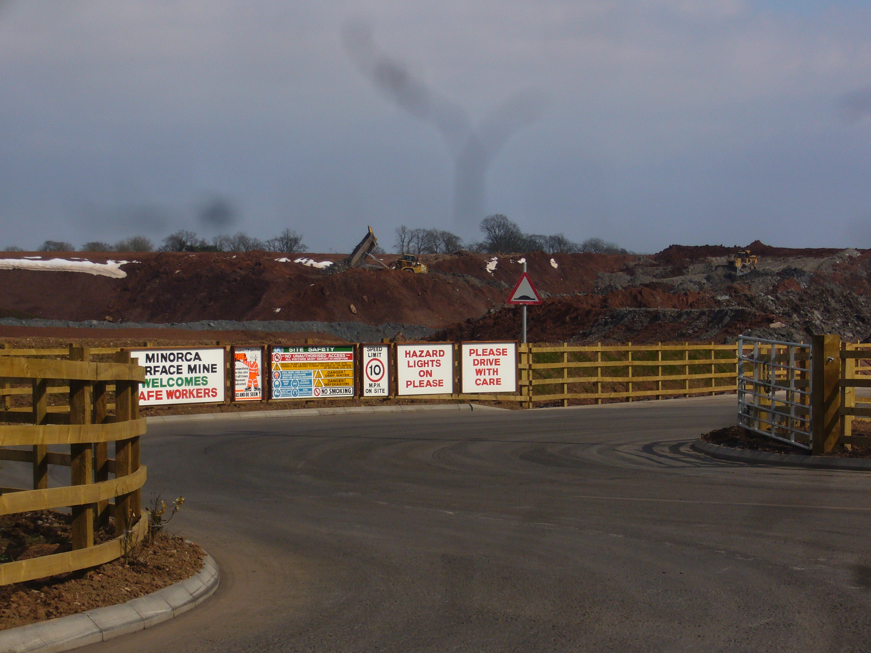 Entrance to open cast coal mine near Swepstone and Measham, Leicestershire.